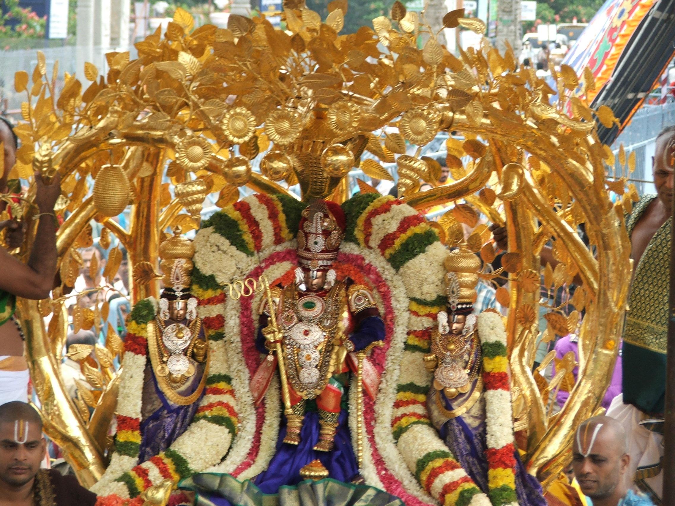 Malayappa swami, the Utsava murthi of Tirumala Venkateswara Temple seen on the fourth morning in the Kalpavriksham vahanam in Tirumala. Hindus believe that Kalpavriksham is a tree that grants boons and fulfill's ones wishes. The vahanam signifies Lord Venkateswara's abilities to grant boons to his devotees.